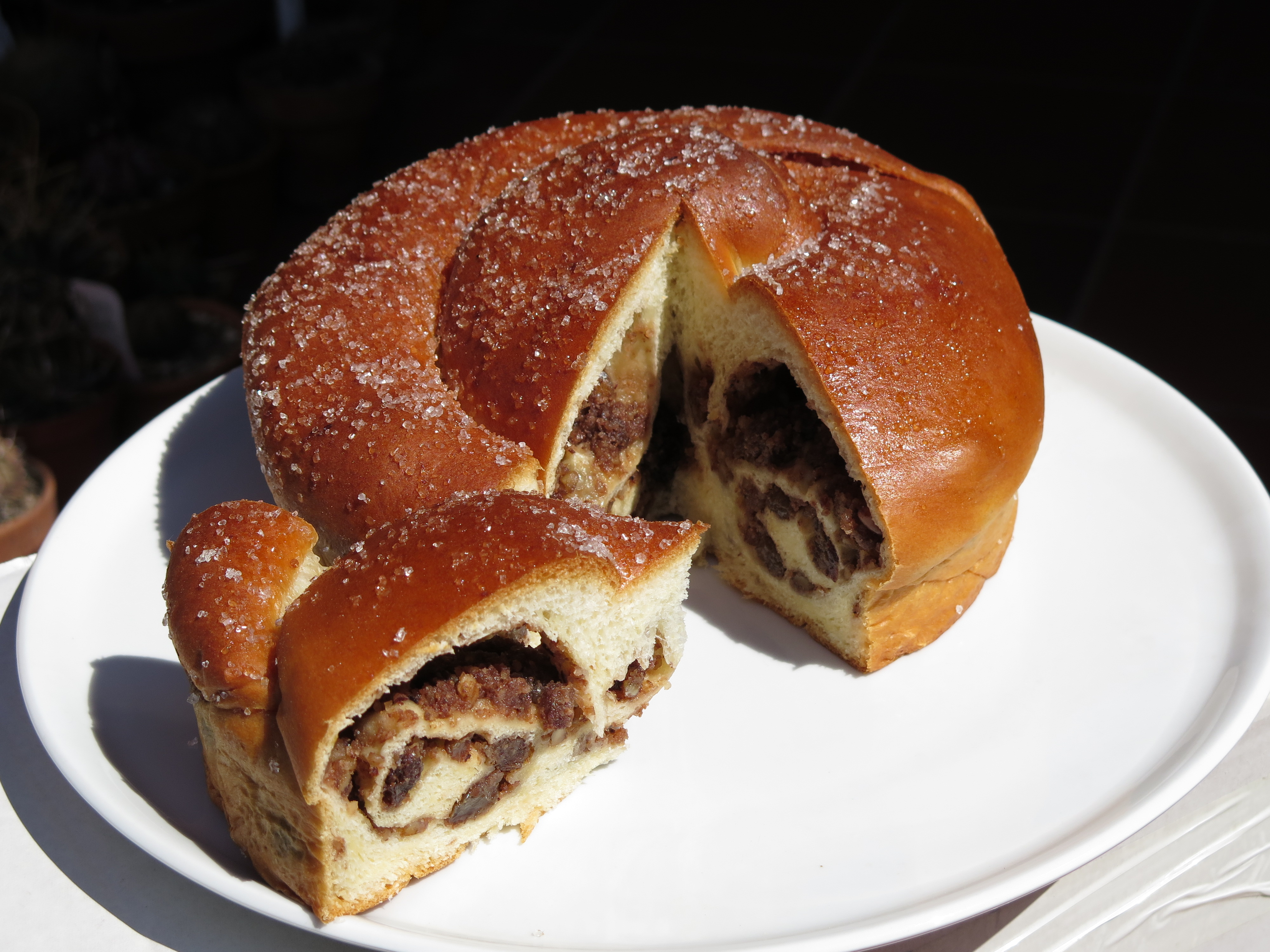 Gubana from Valli del Natisone (Italy)